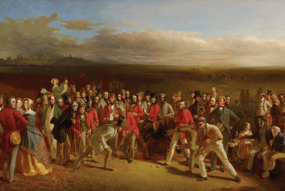 The Golfers by Charles Lees, 1847, oil on canvas, National Galleries of Scotland, Edinburgh